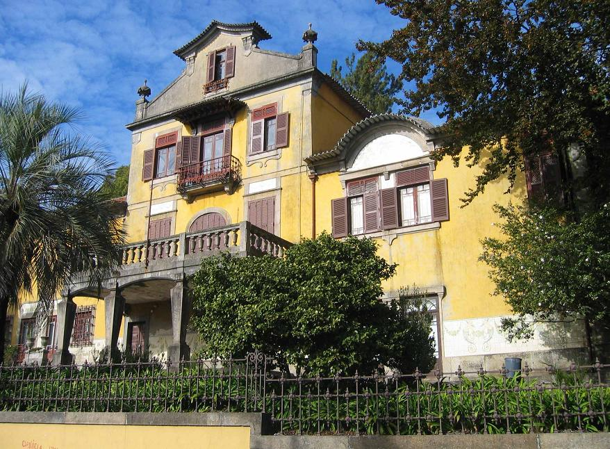 Quinta da Lameira - Street of São Roque da Lameira - Oporto - Portugal